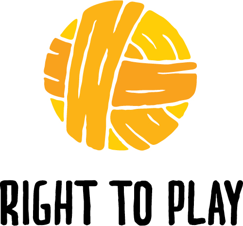 Right To Play protects, educates and empowers children to rise above adversity using the power of play.